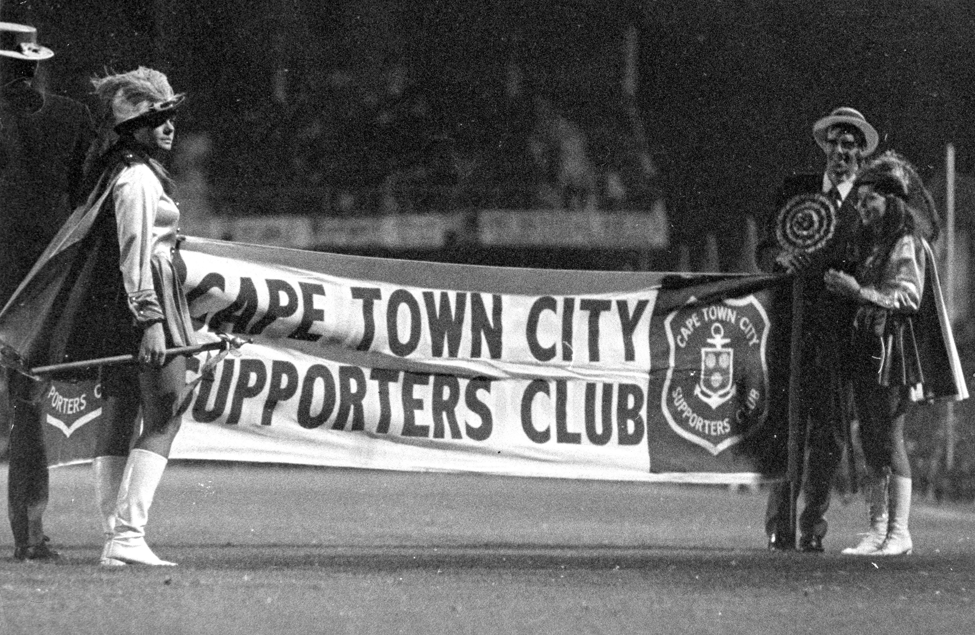 CTC Supporters' Club Banner